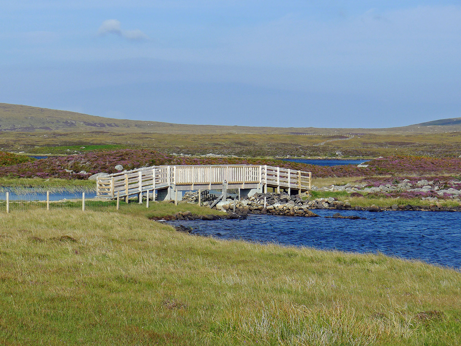 New bridge for access around Loch Druidibeg